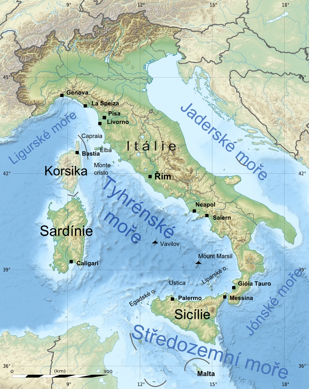 Blank physical map of Italy including the 08-2009 modification of the boundary between Emilia-Romagna and Marche regions, for geo-location purpose.